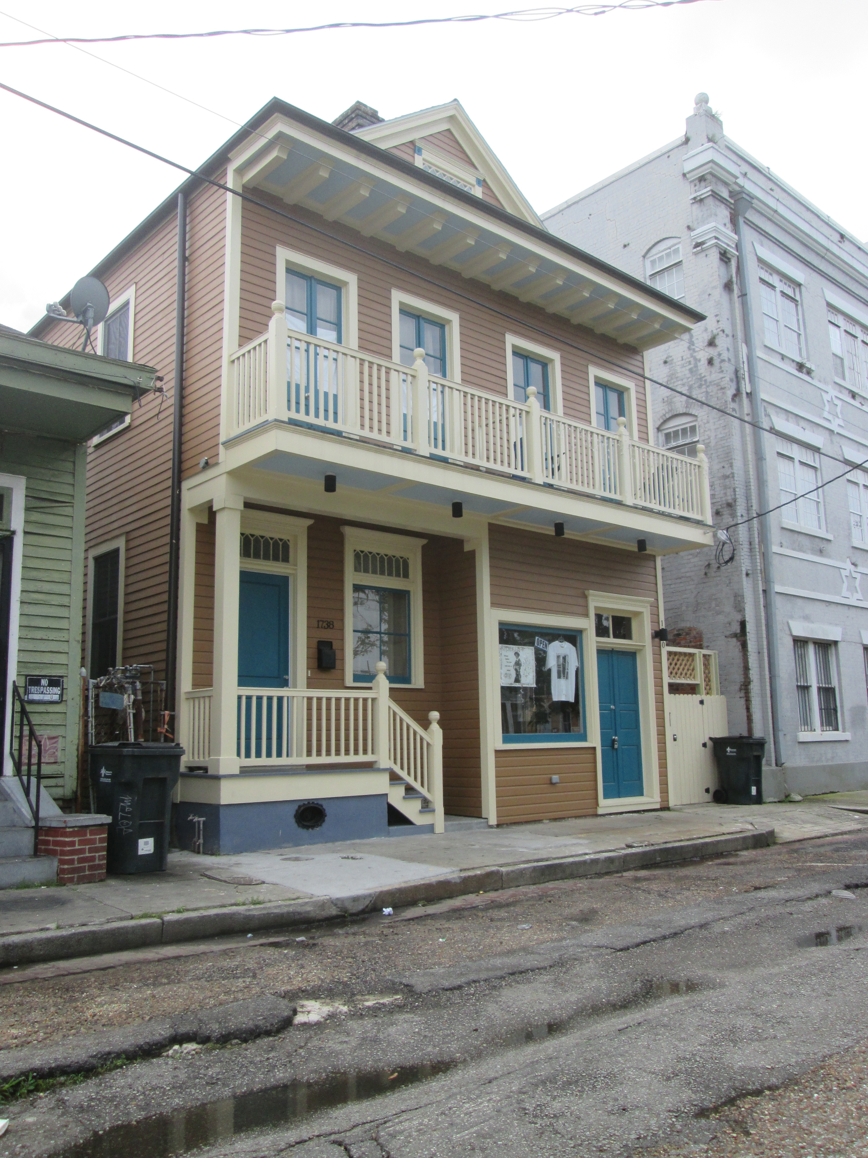 New Orleans, April 2015. Former home of Professor Longhair on Terpsichore Street, Central City.